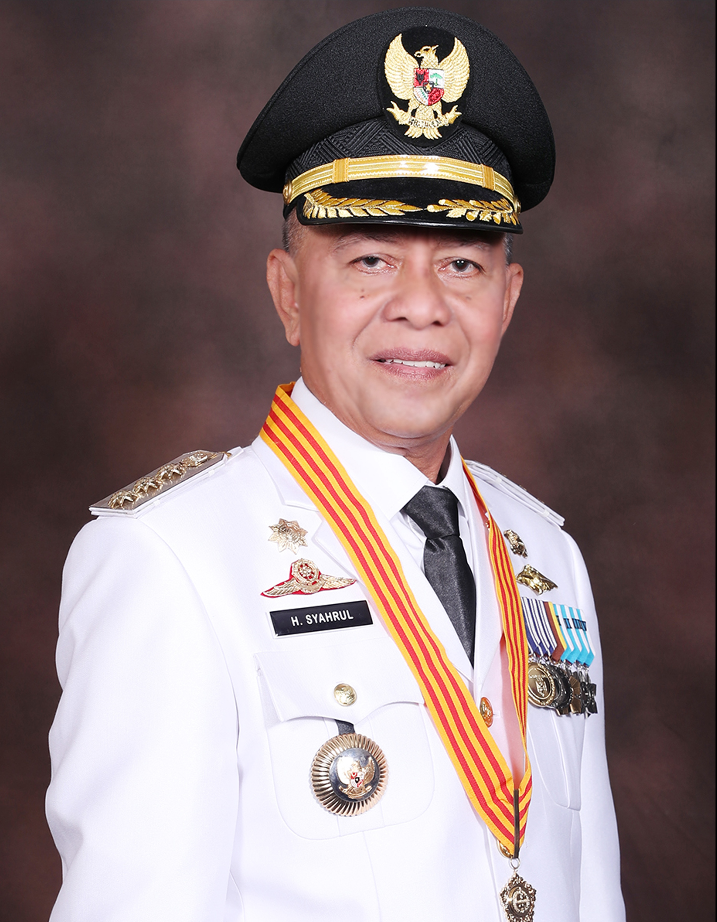 Syahrul, Mayor of Tanjungpinang, Riau Islands Province period 2018-2023